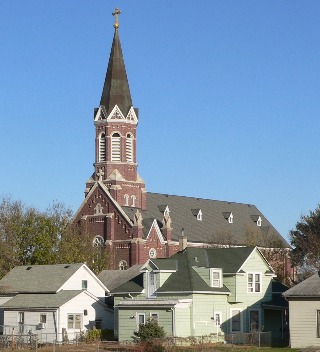 St. Boniface Church, located in Sioux City, Iowa; seen from the southwest.